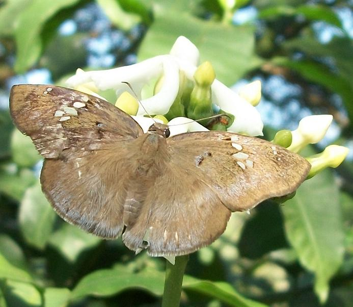 Tagiades flesus on flowers of Tabernaemontana ventricosa, from Ilanda Wilds, Amanzimtoti.